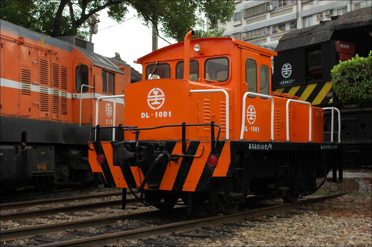 Taiwan Railway Administration diesel switcher DL-1001 at Changhua Rolling Stock Branch. 中文（台灣）: 臺灣鐵路管理局柴油調動機DL-1001，停在彰化機務段。